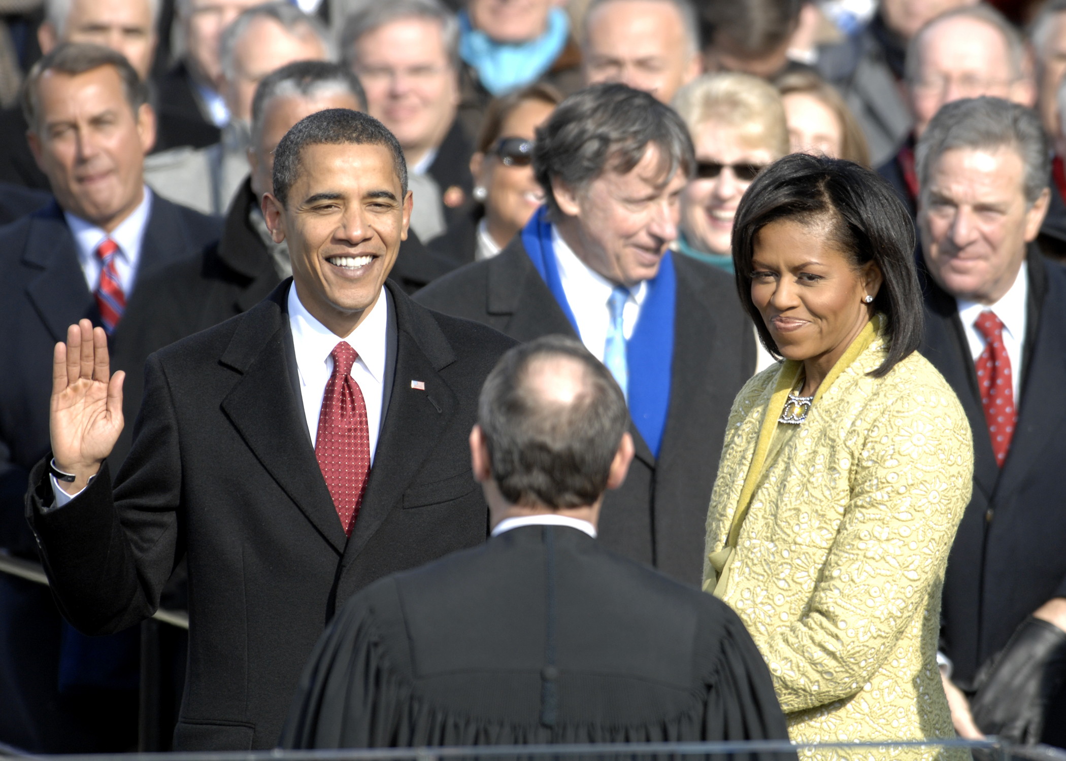 With his family by his side, Barack Obama is sworn in as the 44th president of the United States by Chief Justice of the United States John G. Roberts, Jr. in Washington, D.C., Jan. 20, 2009. More than 5,000 men and women in uniform are providing military ceremonial support to the presidential inauguration, a tradition dating back to George Washington's 1789 inauguration. VIRIN: 090120-F-3961R-919